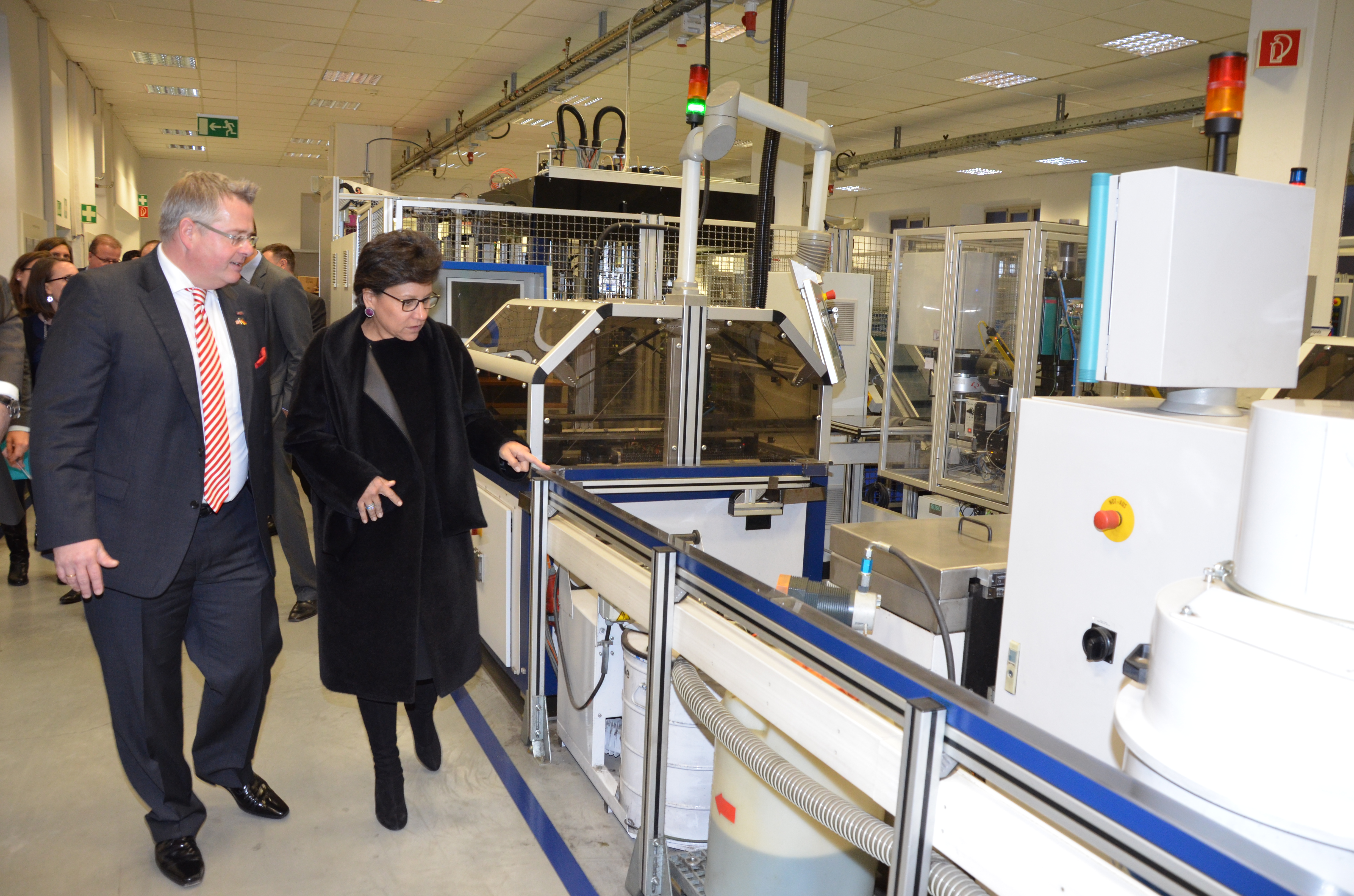 Secretary of Commerce Penny Pritzker visits Munich